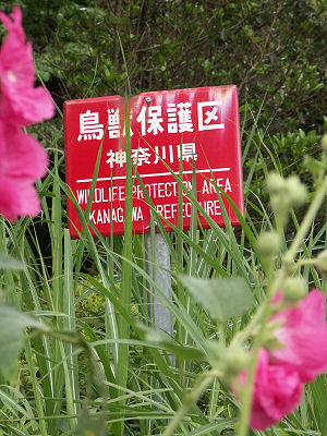 Sign of wildlife protection area designated by Kanagawa prefecture.